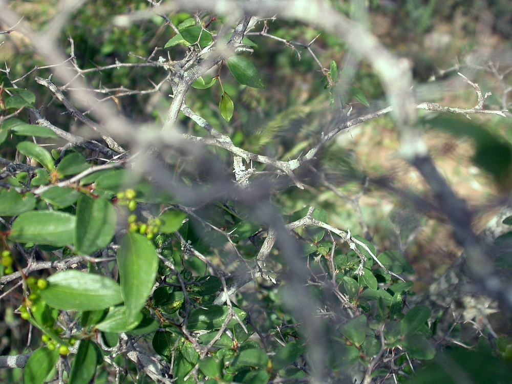 Jerusalem Thorn or Christ's Thorn (Paliurus spina-christi), Frouzet, Languedoc-Roussillon, France